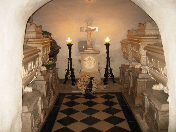 Crypt of the Kostanjevica Monastery, Nova Gorica, Slovenia.